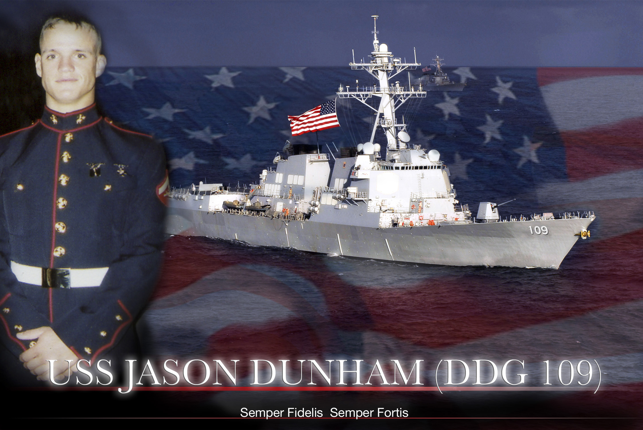 SCIO, N.Y. (March 23, 2007) - Image submitted on occasion of the Department of Navy announcement that the Navy's newest Arleigh Burke-class guided missile destroyer will be named USS Jason Dunham (DDG 109), honoring the late Cpl. Jason L. Dunham, the first Marine awarded the Medal of Honor for Operation Iraqi Freedom. The Secretary of the Navy, the Honorable Donald C. Winter, made the announcement in Dunham’s hometown of Scio, N.Y. U.S. Navy illustration (RELEASED)